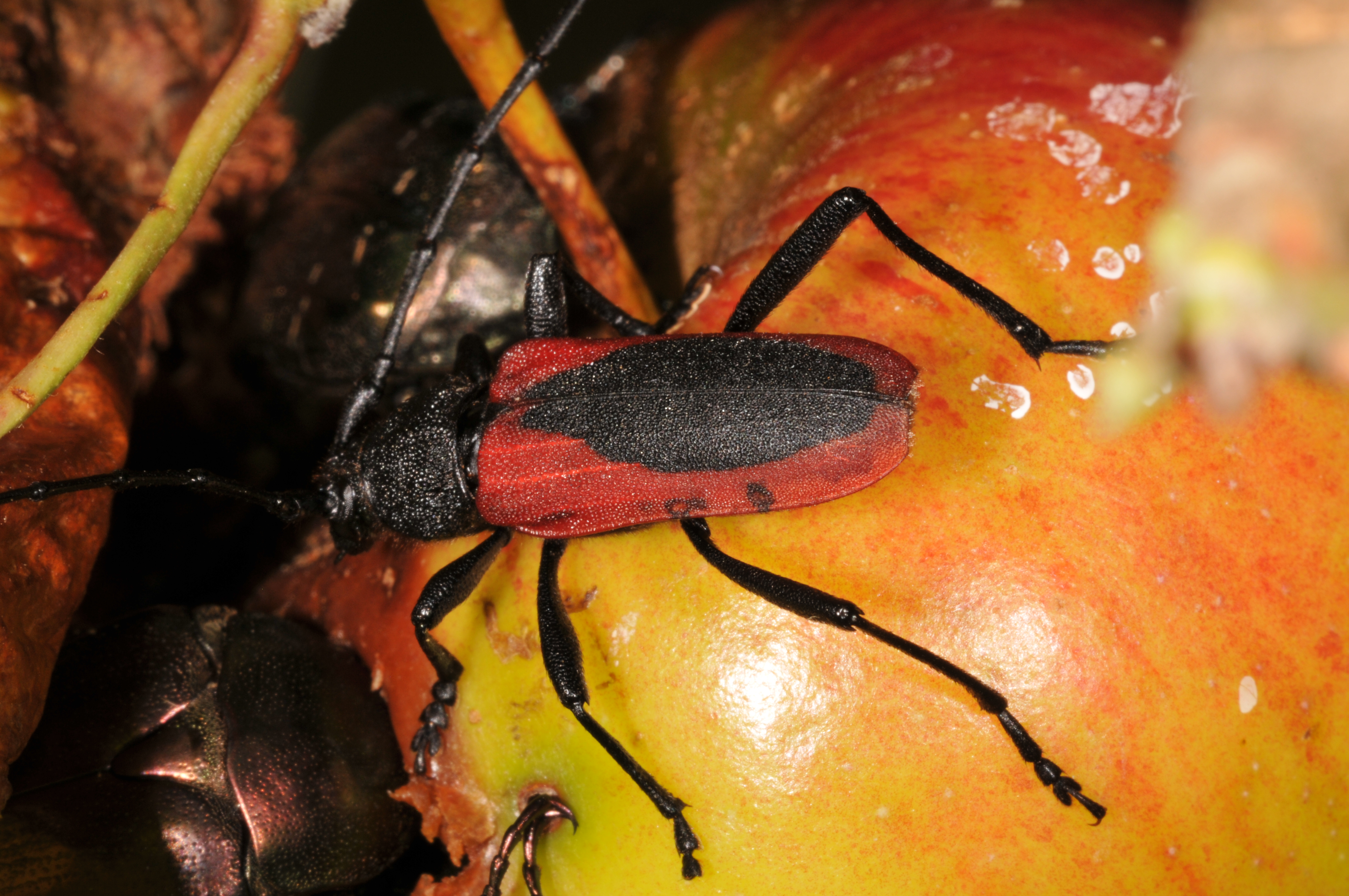 Purpuricenus kaehleri, Croatia, Istria, Brseč 15 km south Lovran, 45°10`23,80``N 14°13`37,25``E